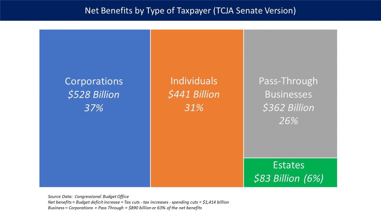 TCJA net tax benefits by type of taxpayer, total over 10 years. Businesses receive $1.1 trillion benefit, individuals $200 billion, and estates (over $5 million) $150 billion.